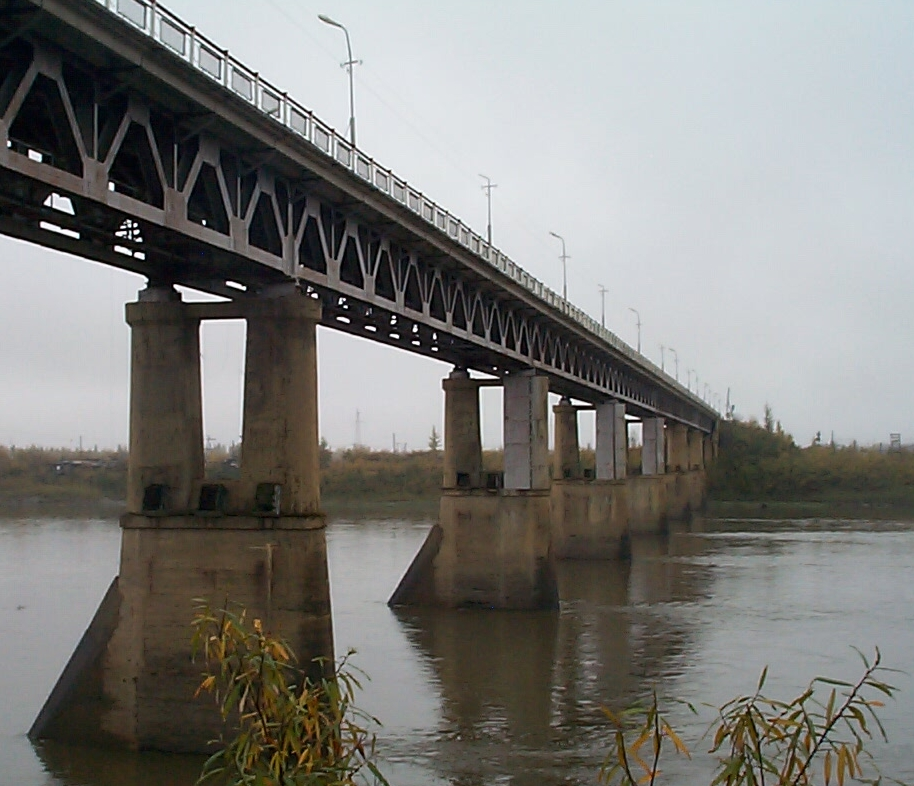 Bridge over the Kolyma River, Magadan Oblast, Siberia. On the main Magadan-Yakutsk road. Built in 1938 and photographed in 2004.